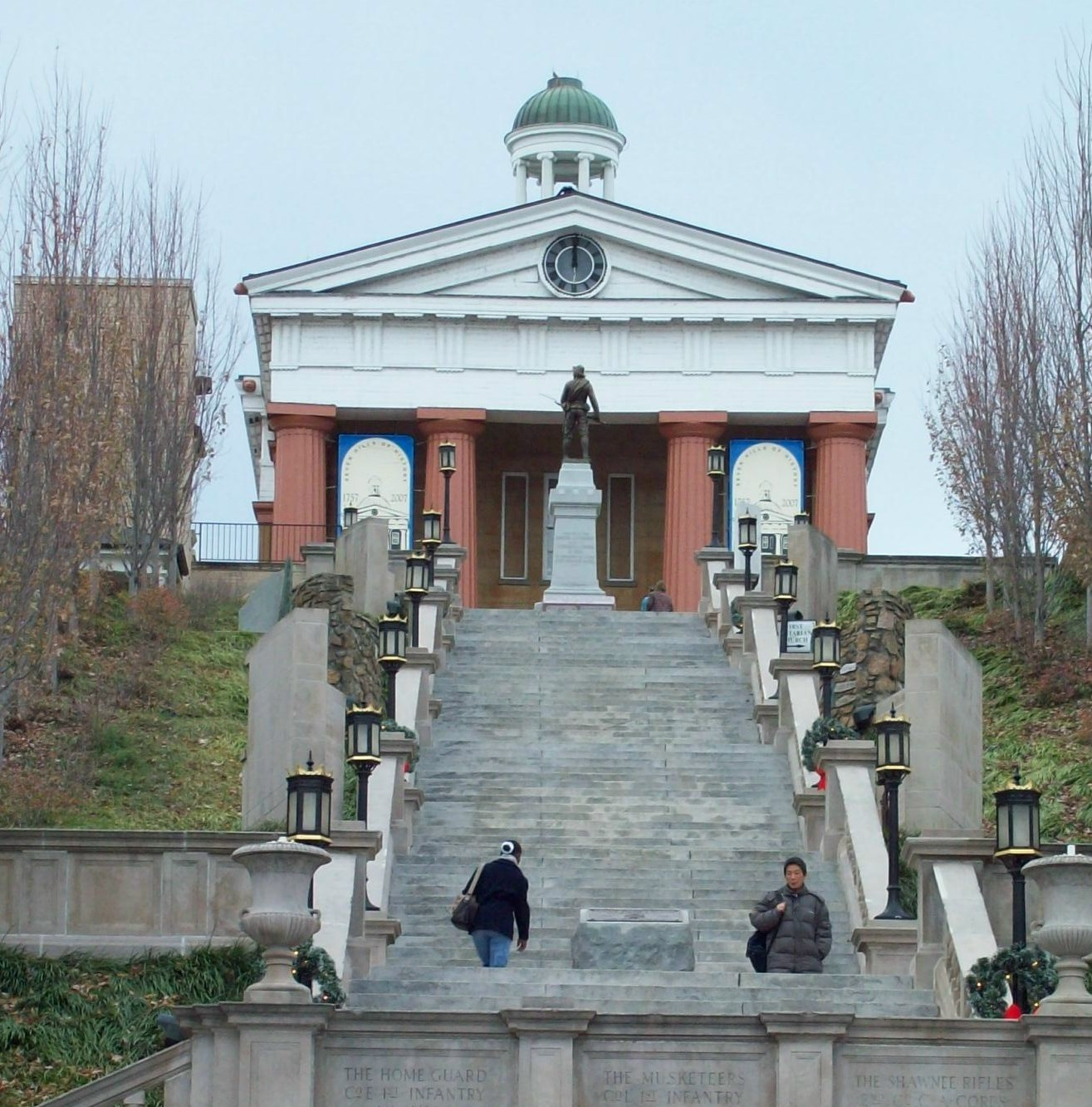 Monument Terrace and Courthouse, Lynchburg VA, November 2008